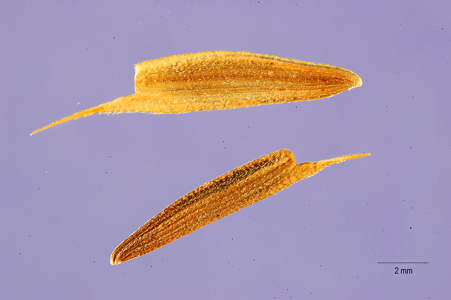 Seeds of Zinnia peruviana